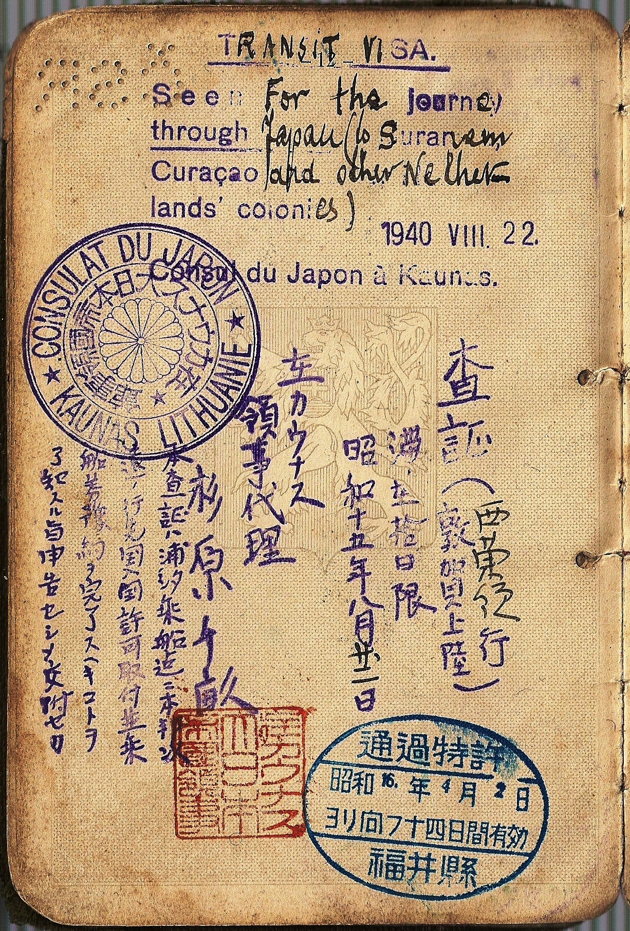 1940 issued Sugihara visa. The holder was Czech and used his Czechoslovakian passport, issued to him in 1938. He managed to escape to Poland in 1939 and from there to Lithuanian. In 1940 he received the Visa from Sugihara, using it to travel via Siberia to China